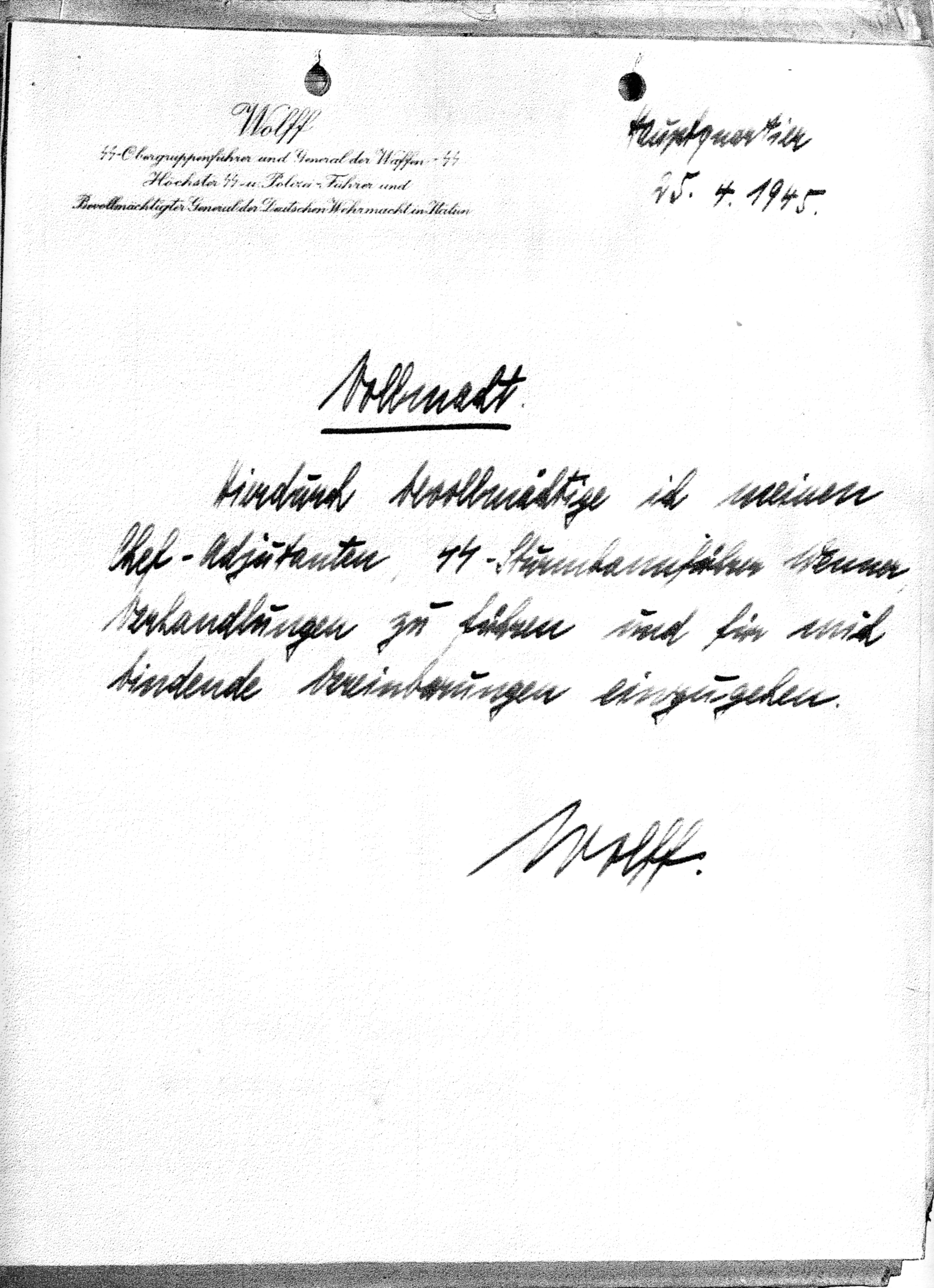 Wolff's Proxy for the Caserta surrender